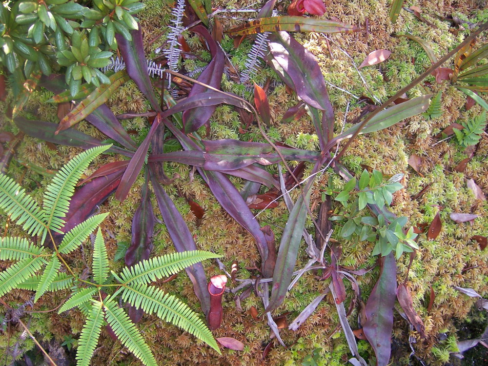 N. sp. on Phukradung Thailand